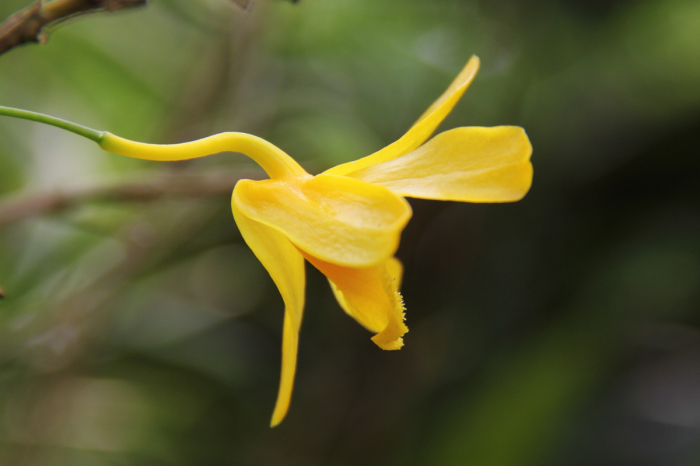 I have erect stems resembling bamboo poles. You may see me among tree trunks in the forest or stones under woodland at an altitude of 650 to 1000m. I favor a growing environment with over 60% humidity and a temperature between 59℉(15℃)and 82.4℉(28℃). In the wild I usually grow out of loosened, thick tree barks or trunks, sometimes among the crevices of the stones as well. I mainly reproduce by ways of division, proliferation and cuttage